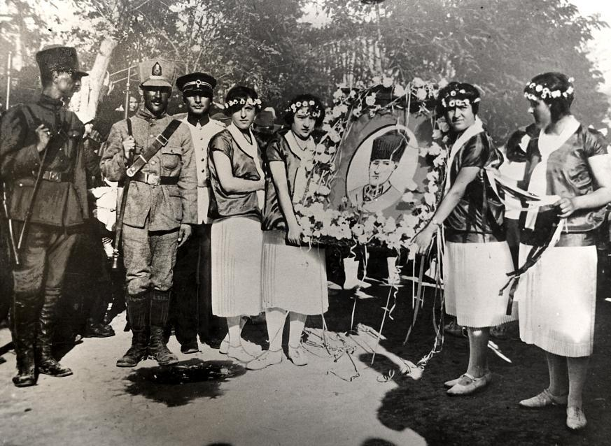 Turkish girls celebrating their liberation from a harem, thanks to Kemal Atatürk, 1931. Note : I tried to add the following comment to Flicker, as suggested below, but could not, for not being signed up to that media. It reads: "The final liberation from harems was back in 1908-1909, after the first Turkish Revolution, during Ottoman times. Therefore these ladies in "1931", 8 years after the establishment of the Turkish Republic, and during the second Turkish Revolution (Atatürk's reforms) are most possibly simply celebrating a National Day of Turkey. I will make my own celebration when you guys get rid of your prejudices about Turkey, a country that elected 18 women to its parliament in 1930s." Hebt u meer informatie over deze foto, laat het ons weten. Laat een reactie achter (als u ingelogd bent bij Flickr) of stuur een mailtje naar: Please help us gain more knowledge on the content of our collection by simply adding a comment with information. If you do not wish to log in, you can write an e-mail to: Meer foto’s van Spaarnestad Photo zijn te vinden op onze beeldbank